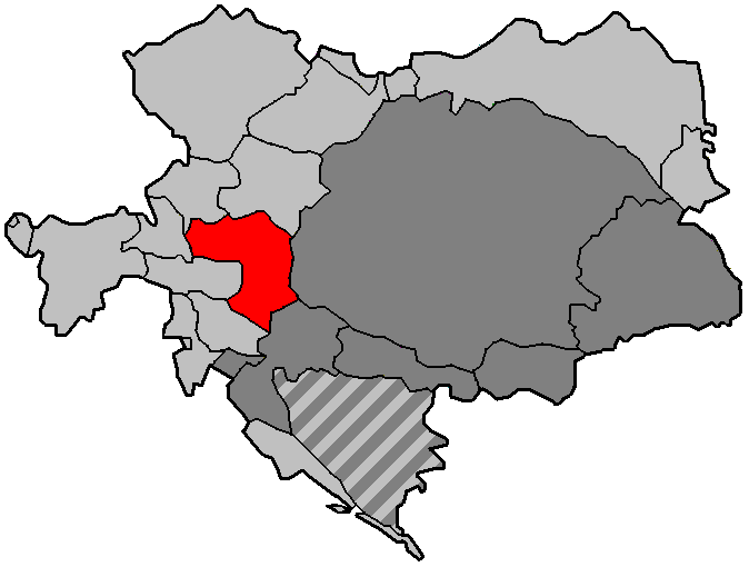 Map of Austria-Hungary